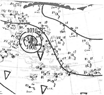 Surface weather analysis map of the 1933 Treasure Cost Hurricane on September 3, 1933